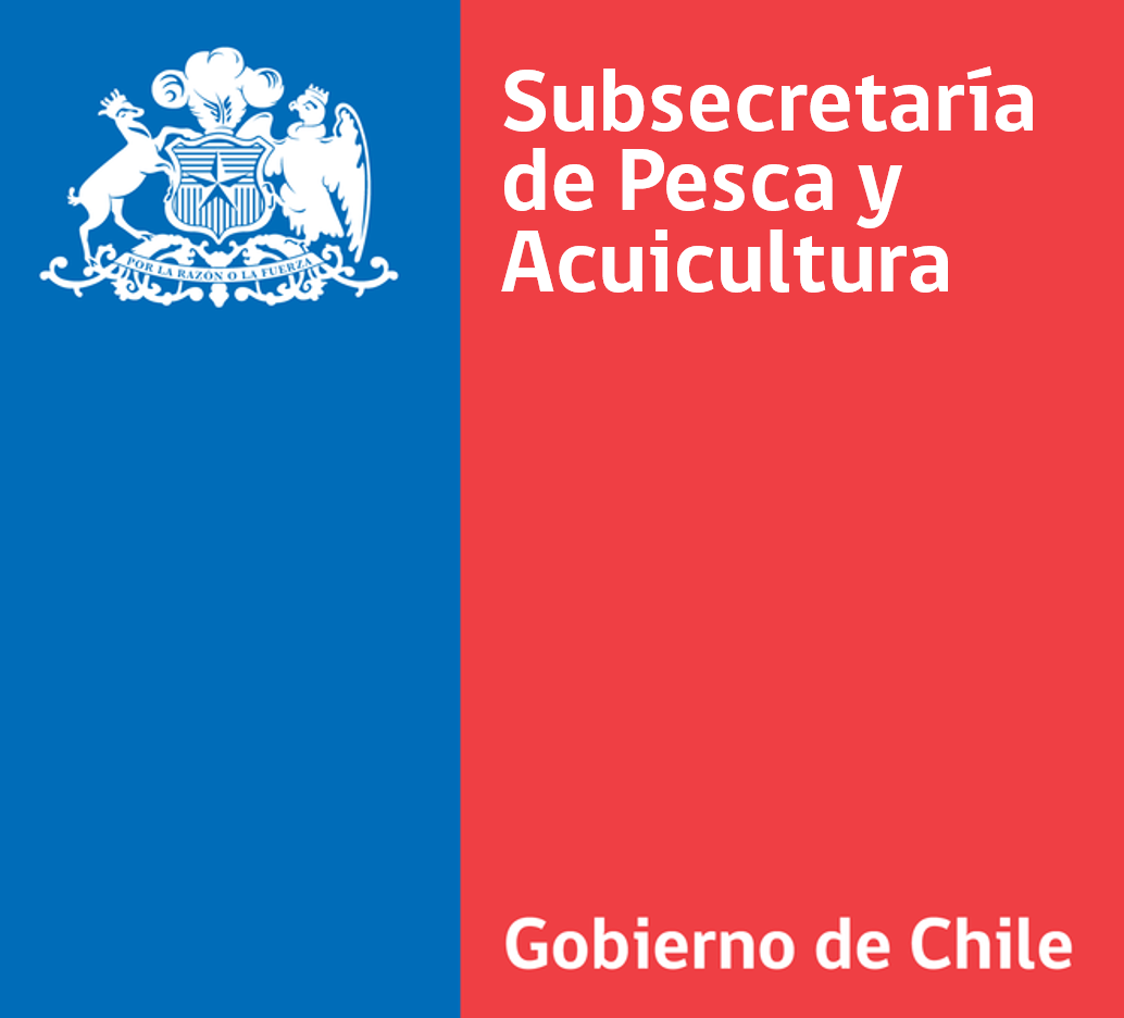 Logo of the Undersecretariat of Fisheries and Aquaculture